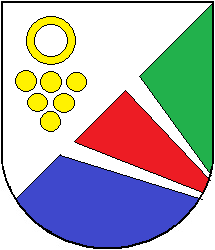 Shield of the municipality of Milvignes, Canton of Neuchâtel